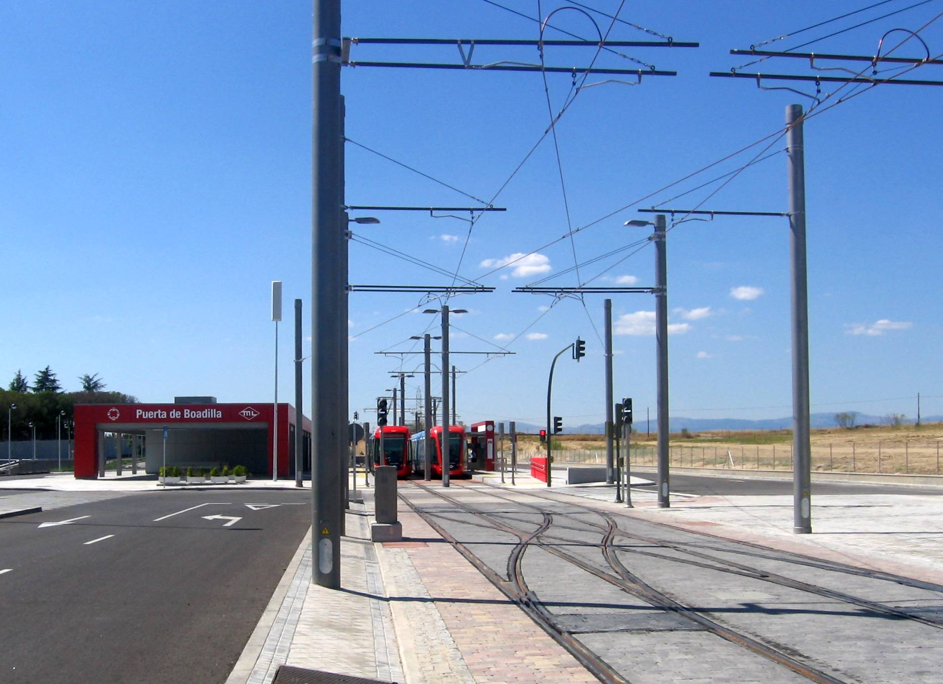 Puerta de Boadilla station of Madrid Light Rail.